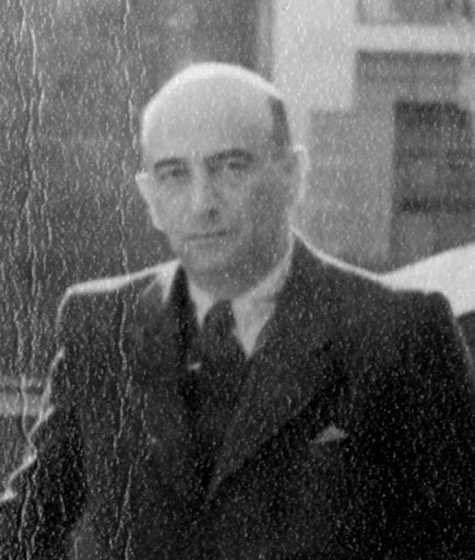 Portrait of David Enoch